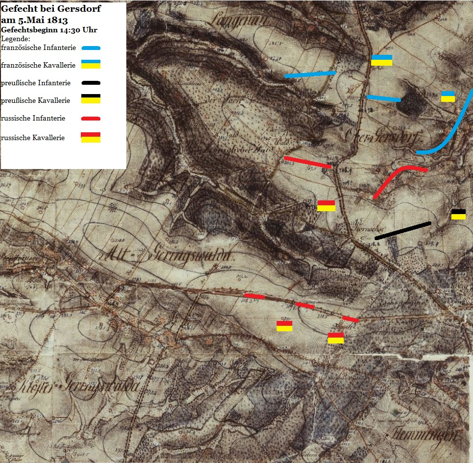 Battlemap from the battle of Gersdorf 5.May 1813.Battlestart.